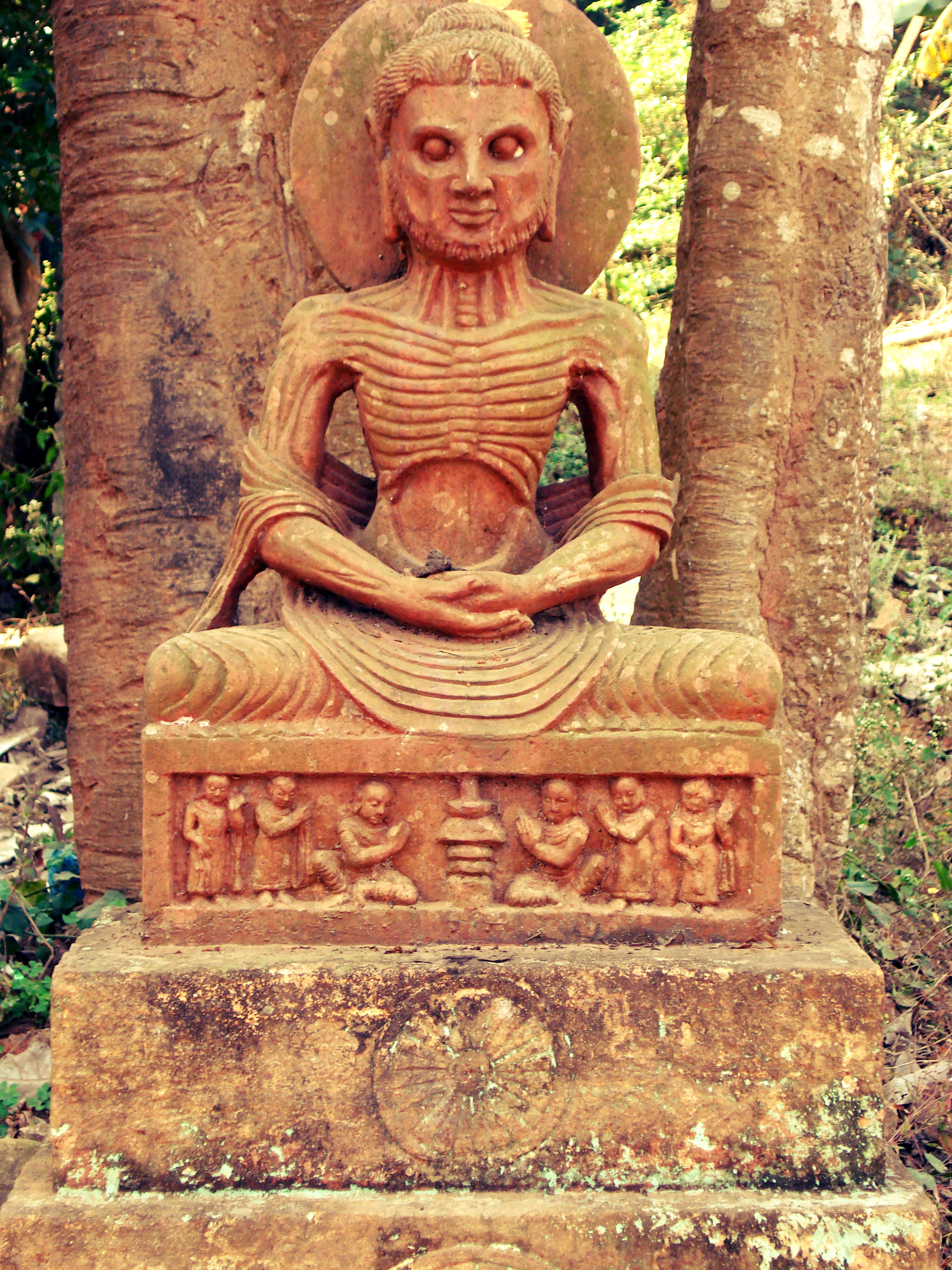 Skeleton Buddha at Lalitgiri